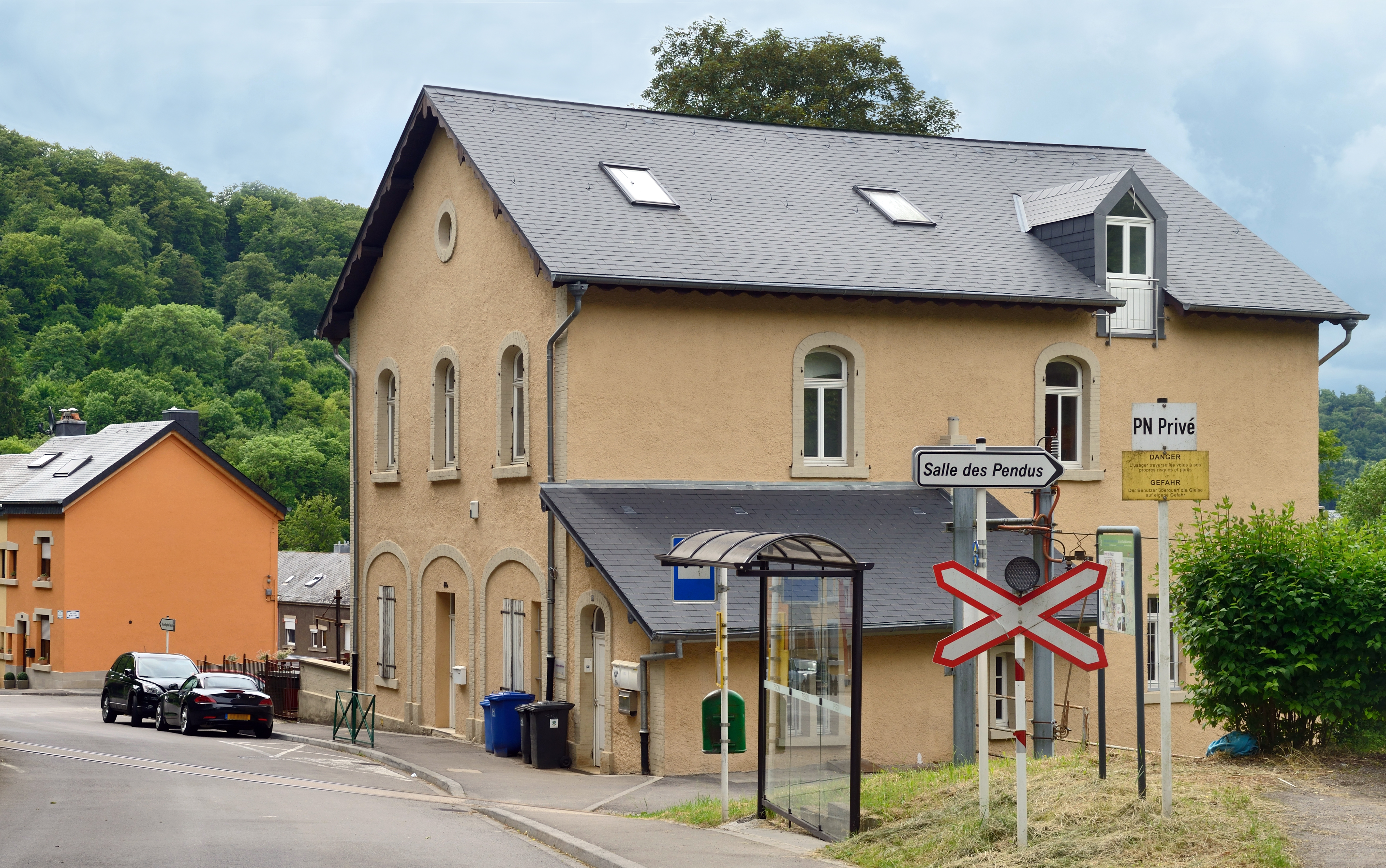 Luxembourg, Lasauvage: house close to the mining railway.